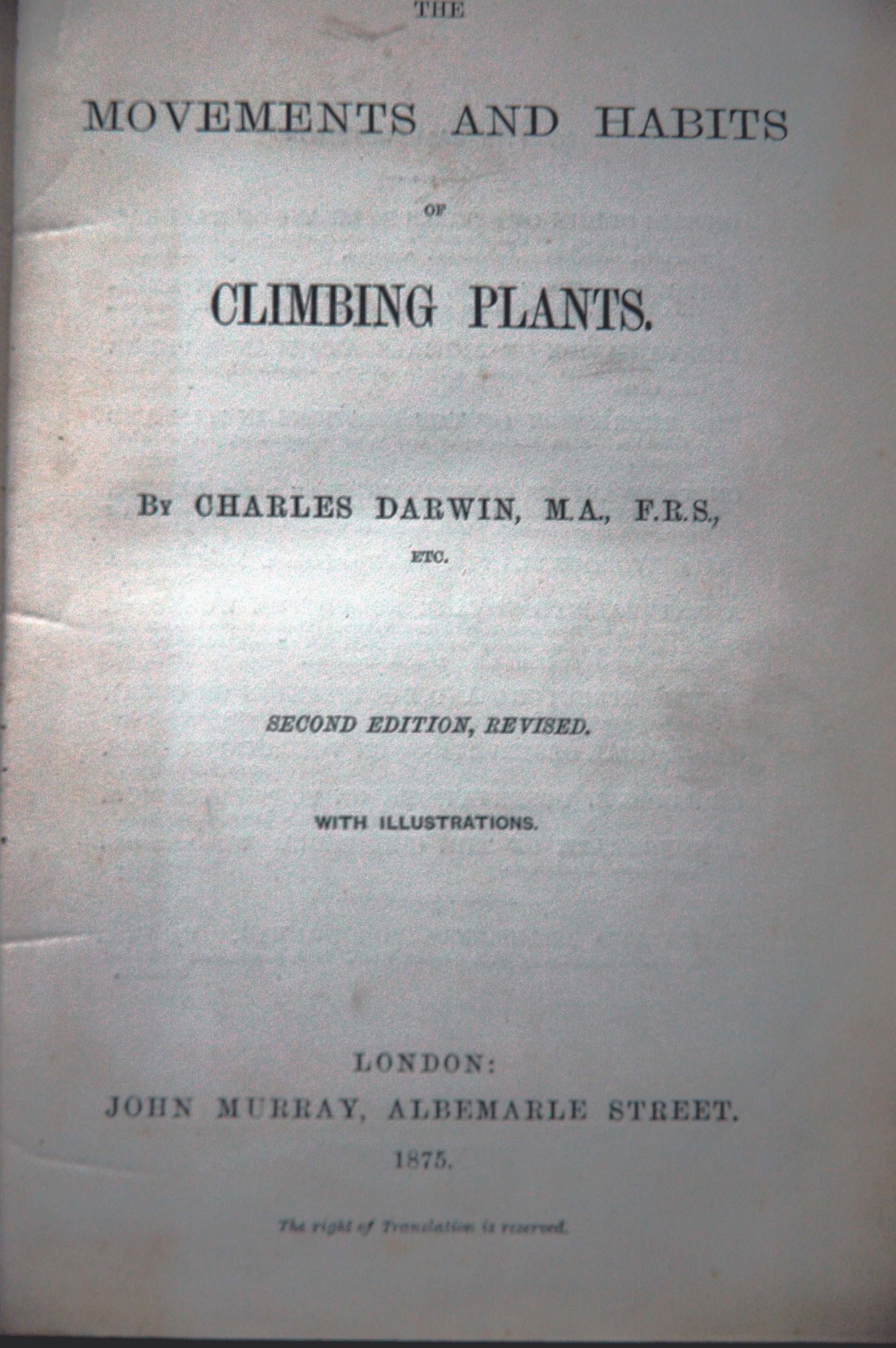 Photo of first edition of Darwin's Movements and Habits of Climbing Plants. This is the first print in book form therefore front cover reads 2nd Edition, revised.